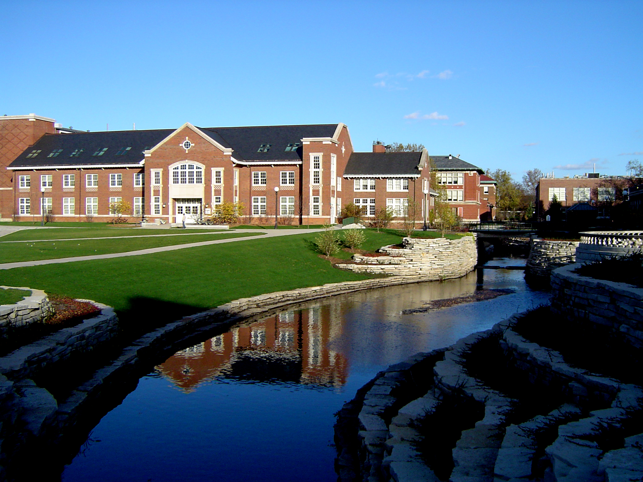 The Engineering campus at UIUC